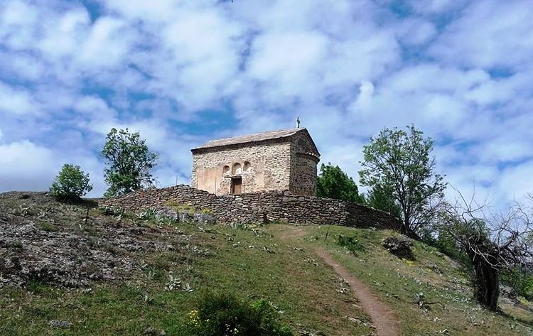 Bogorodičina crkva na Vražjem kamenu